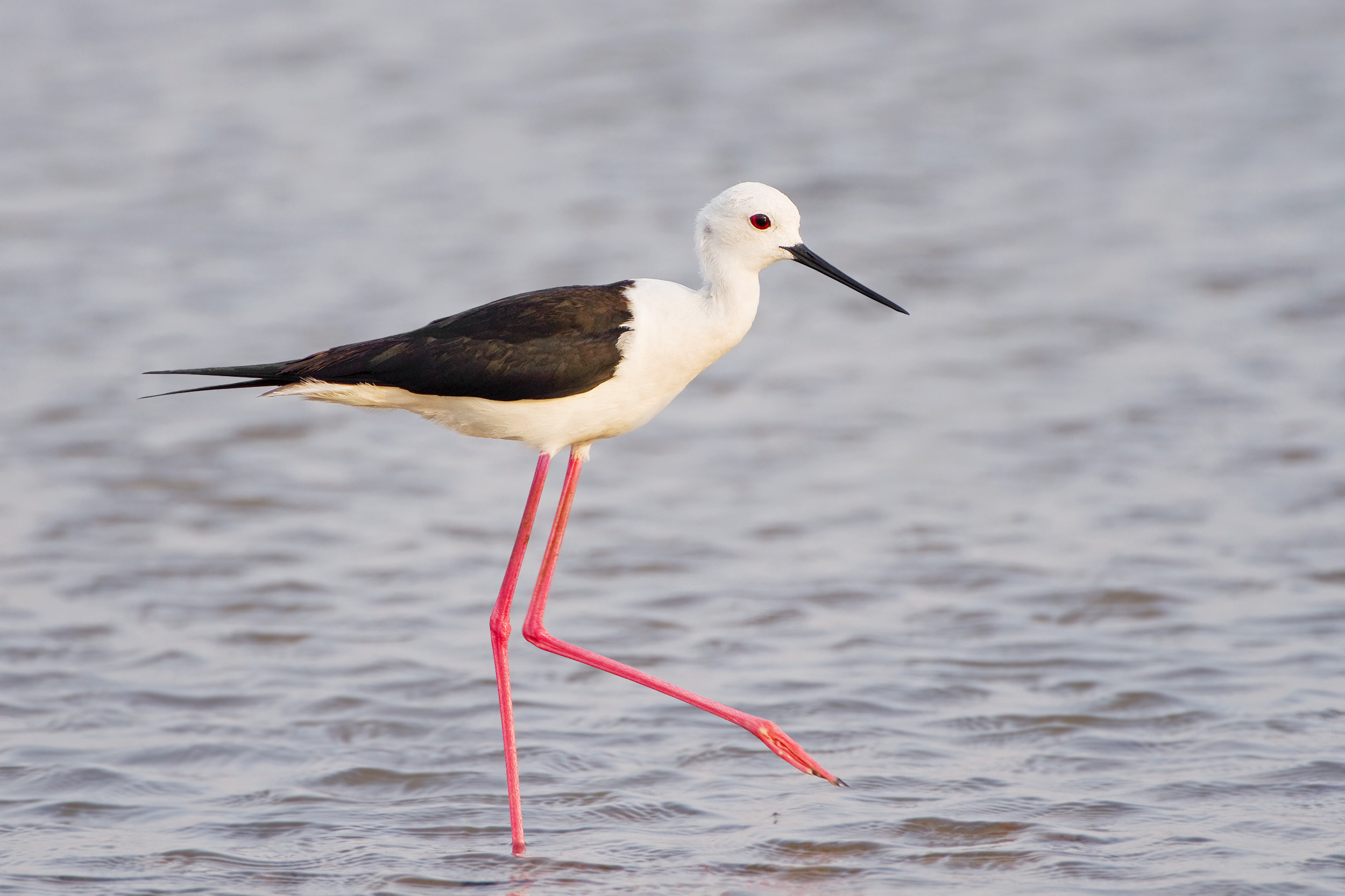 Black-winged Stilt (Himantopus himantopus), Pak Thale, Ban Laem, Phetchaburi, Thailand